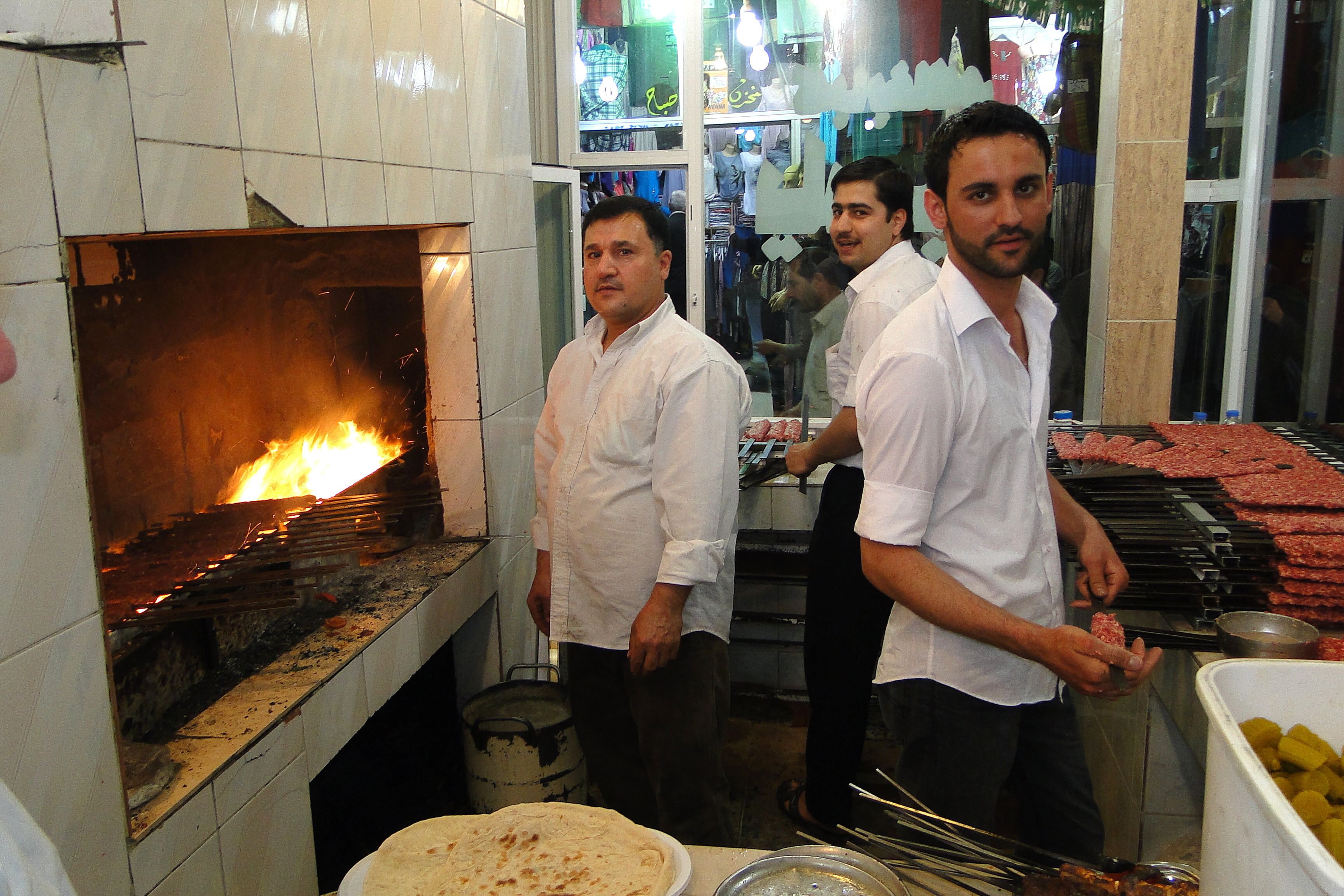 Kebab Sellers - Bazaar - Erbil - Iraq